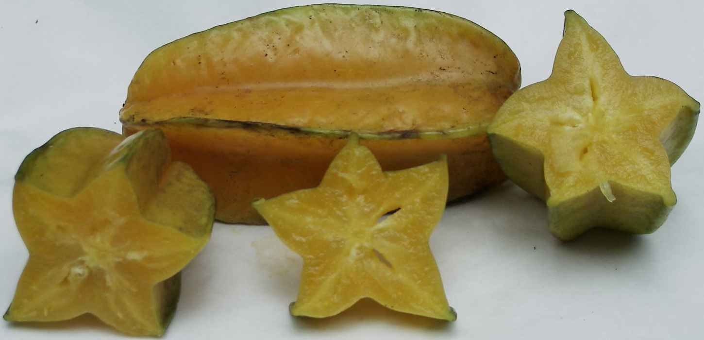 Two ripe carambolas, one of them cut to show the star-shaped cross section. Picture taken by Fibonacci.